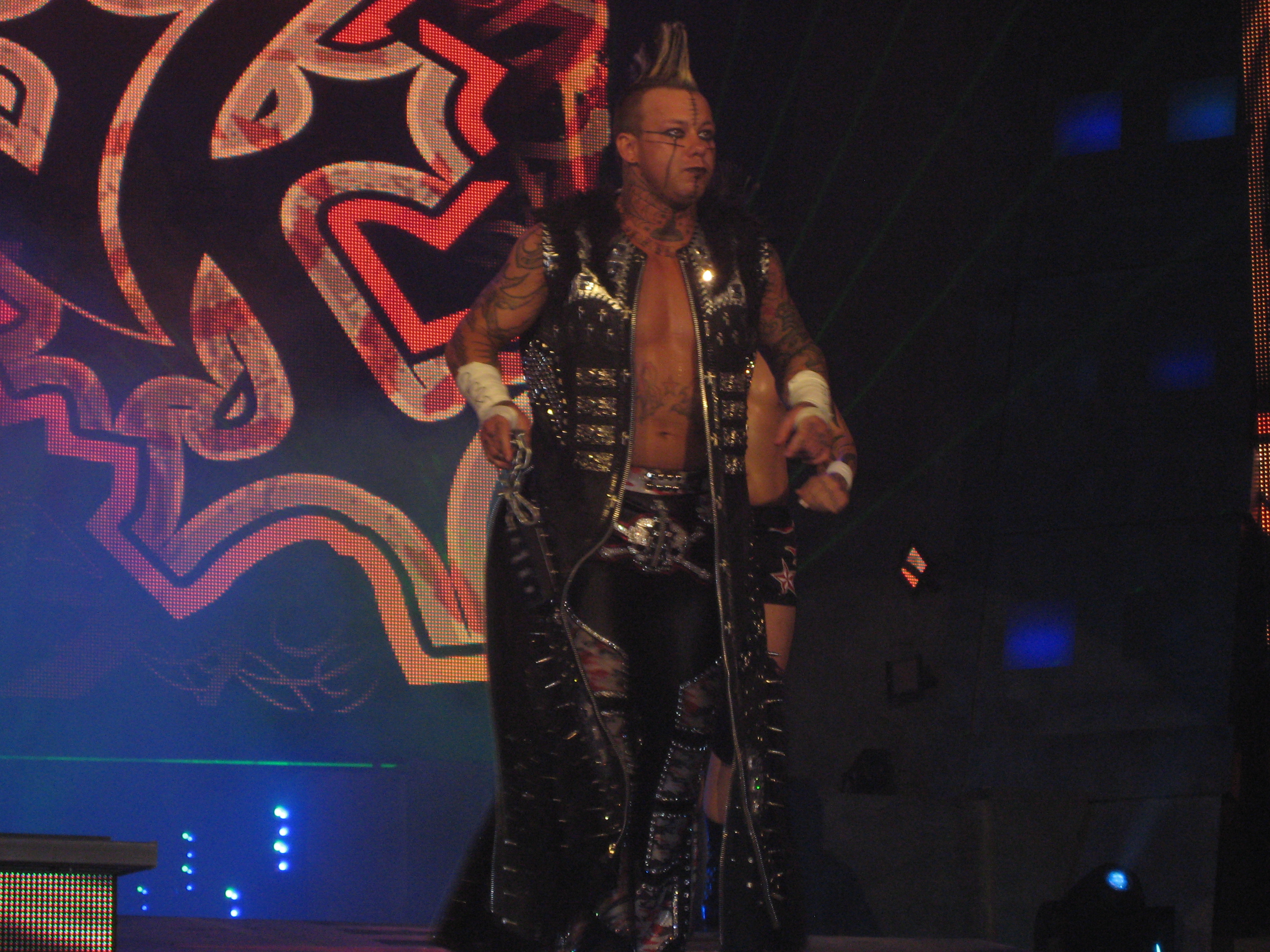 September 8th, 2010 tapings.